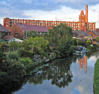 Tulketh Mill, Ashton, Preston. Taken from the canal bridge on Woodplumpton Road. Tulketh Mill is now a mail-order catalogue distribution and call centre. Lancaster Canal is in the foreground.